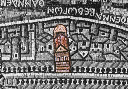 Church of the Holy Sepulchre in Madaba map